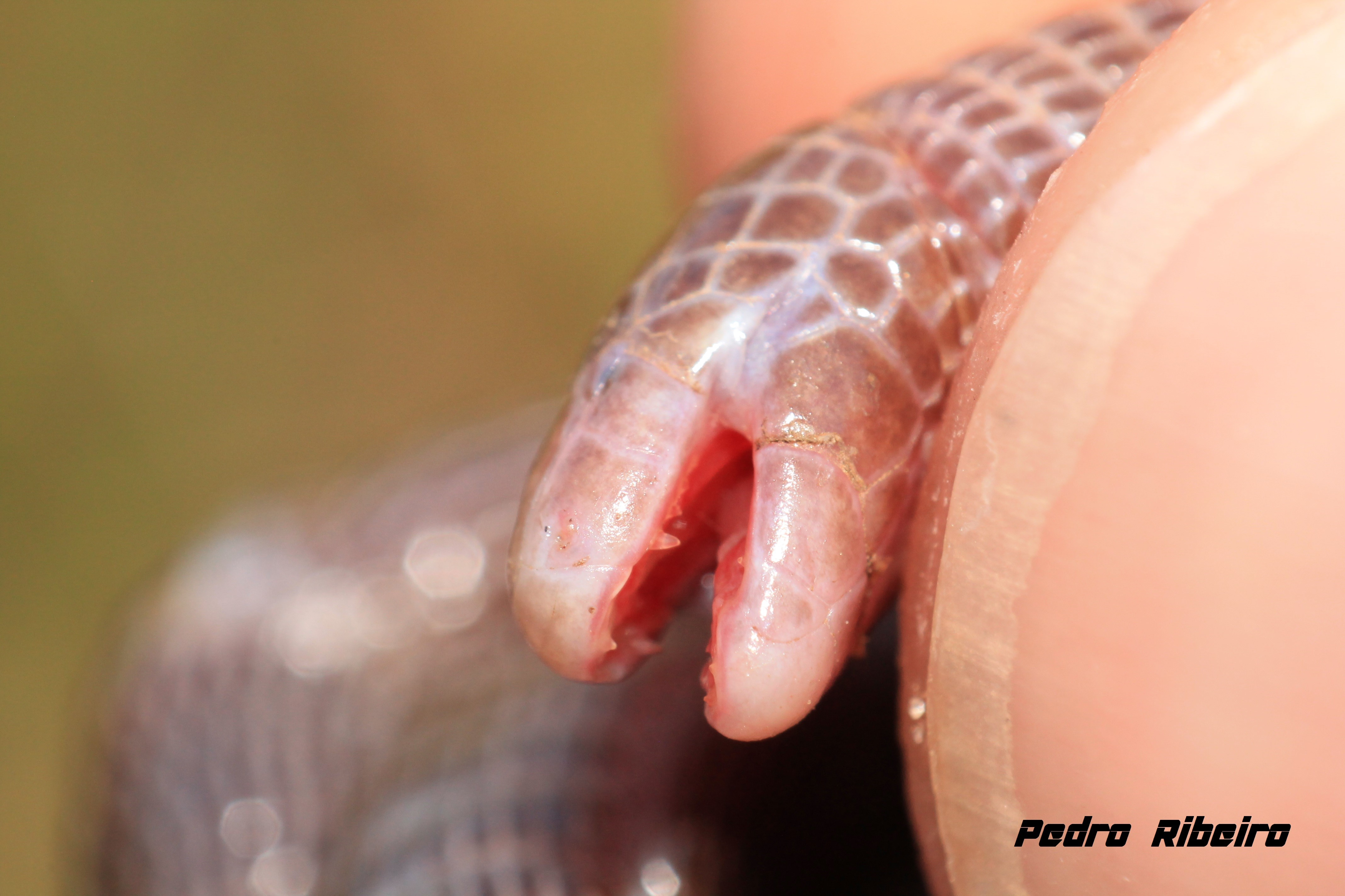 Detail of the teeth of Blanus cinereus